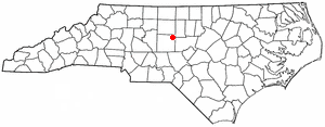 Category:North Carolina Dot Maps